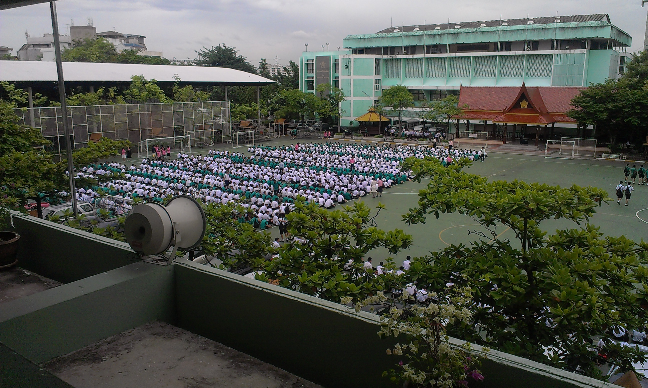 scenery in Taweethapsiek School ,Thailand